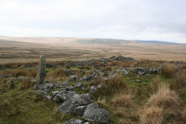 Ruins of Foxtor Farm Behind the ruins of Foxtor Farm is Foxtor Mires. Whiteworks can be seen on the far hillside in the centre of the picture. Foxtor Farm is named on the Harvey map but not on OS maps.